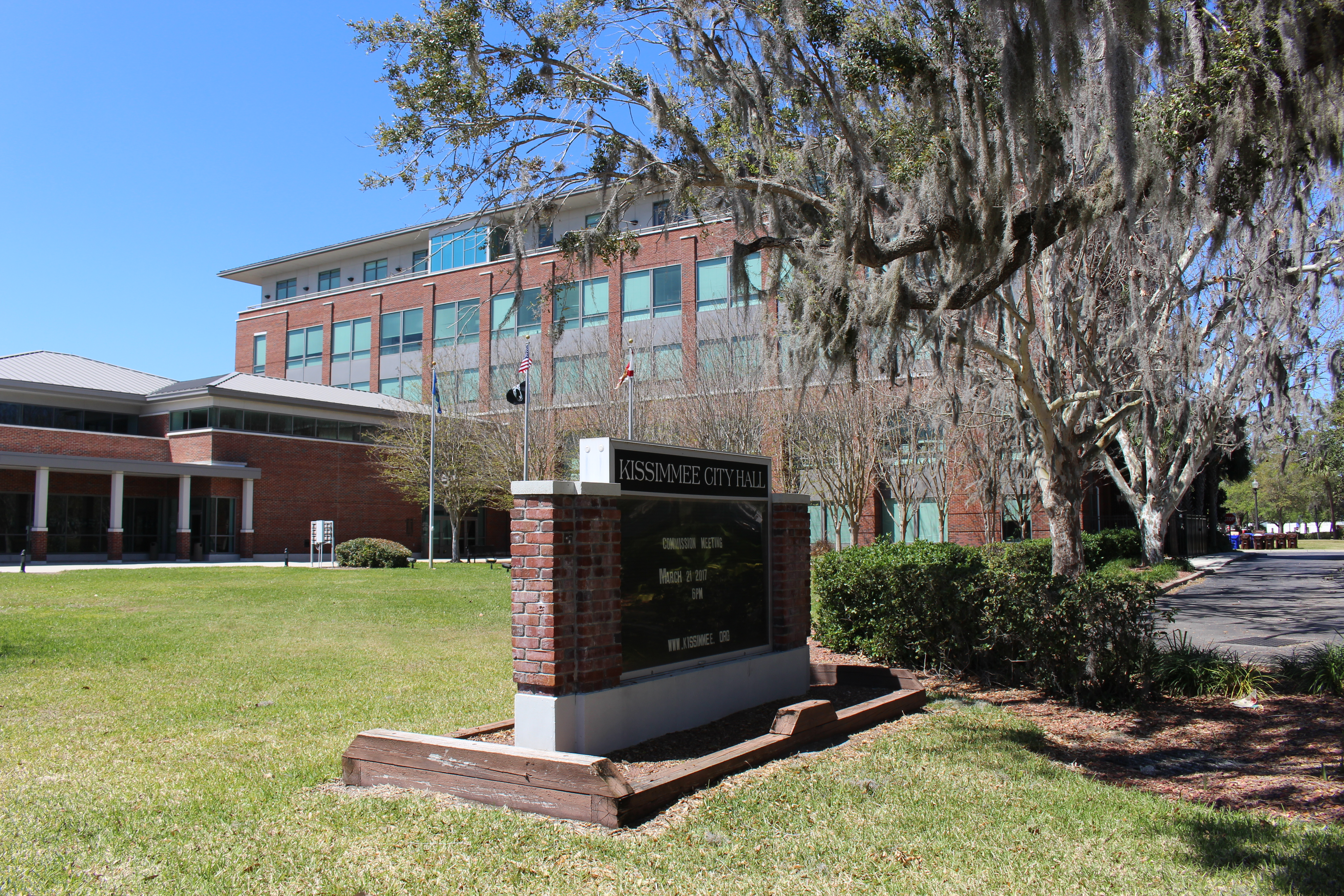 Kissimmee City Hall, Kissimmee, Osceola County, Florida